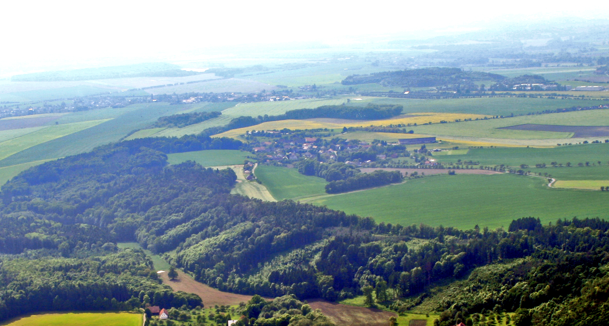 Village Vršovka near of town Dobruška from air, eastern Bohemia, Czech Republic